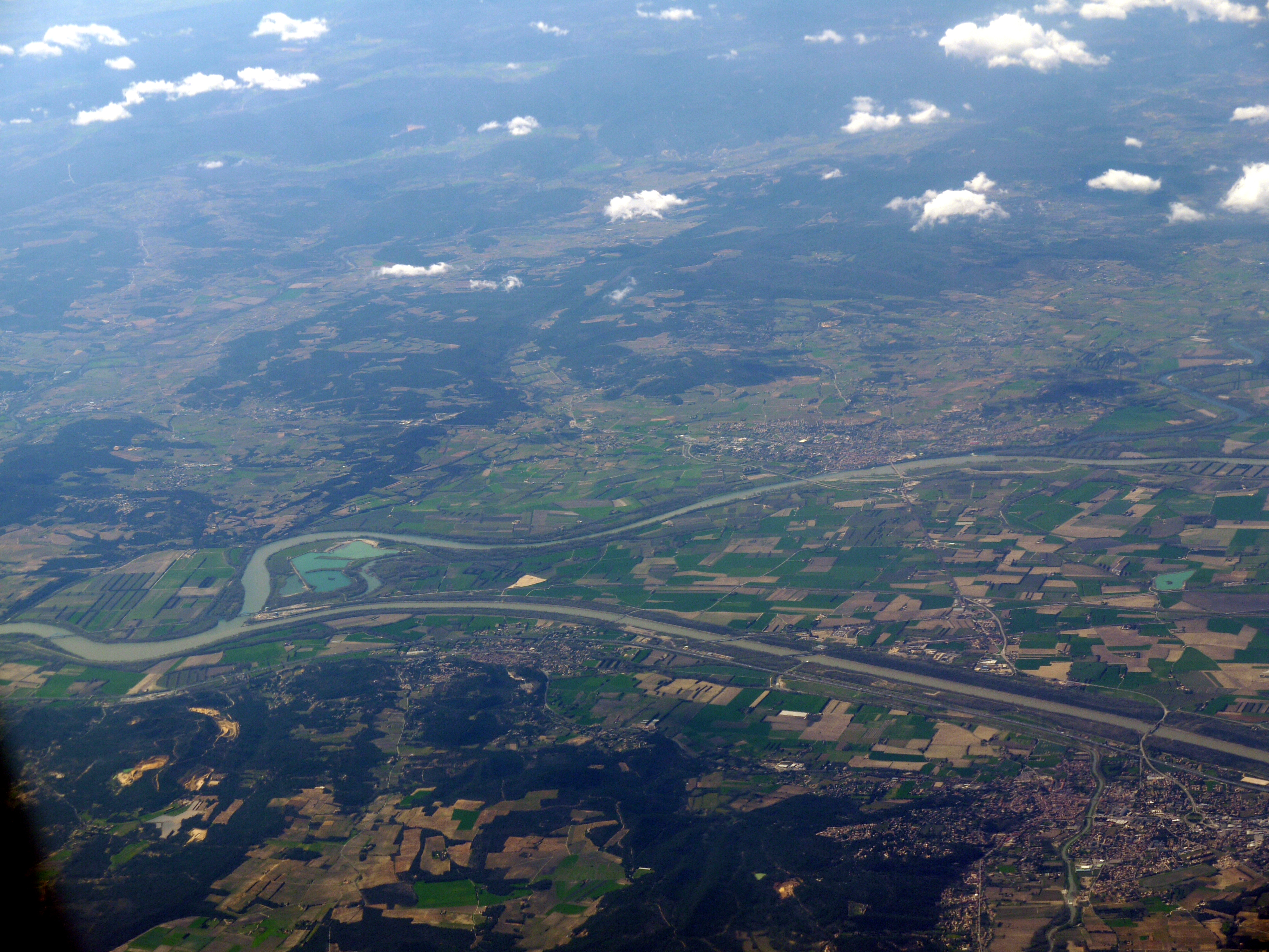 Tricastin and Pierrelatte, photograph taken from the sky, on the fly line between Marseille and Stockholm.